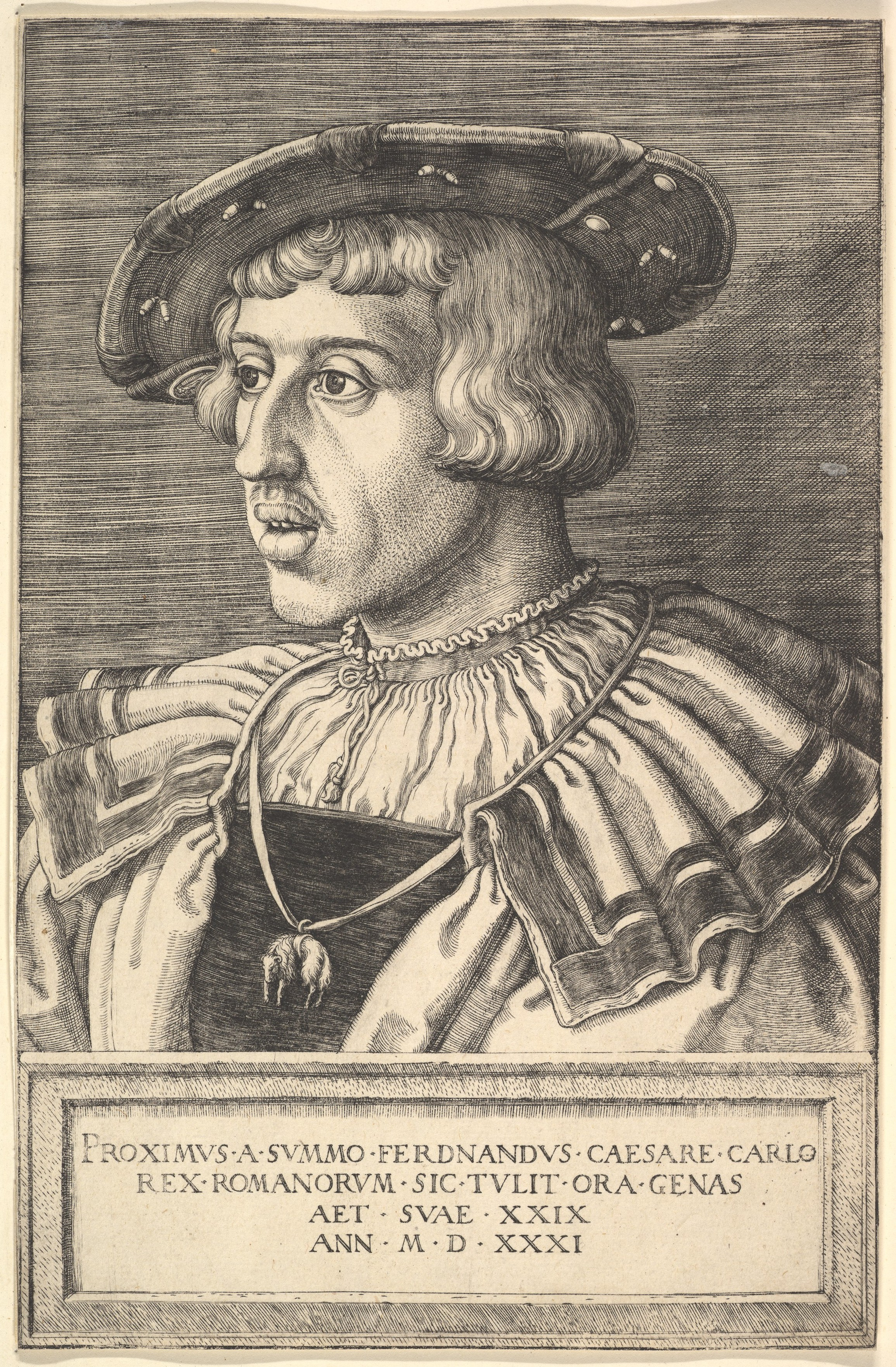 Emperor Ferdinand I; Prints